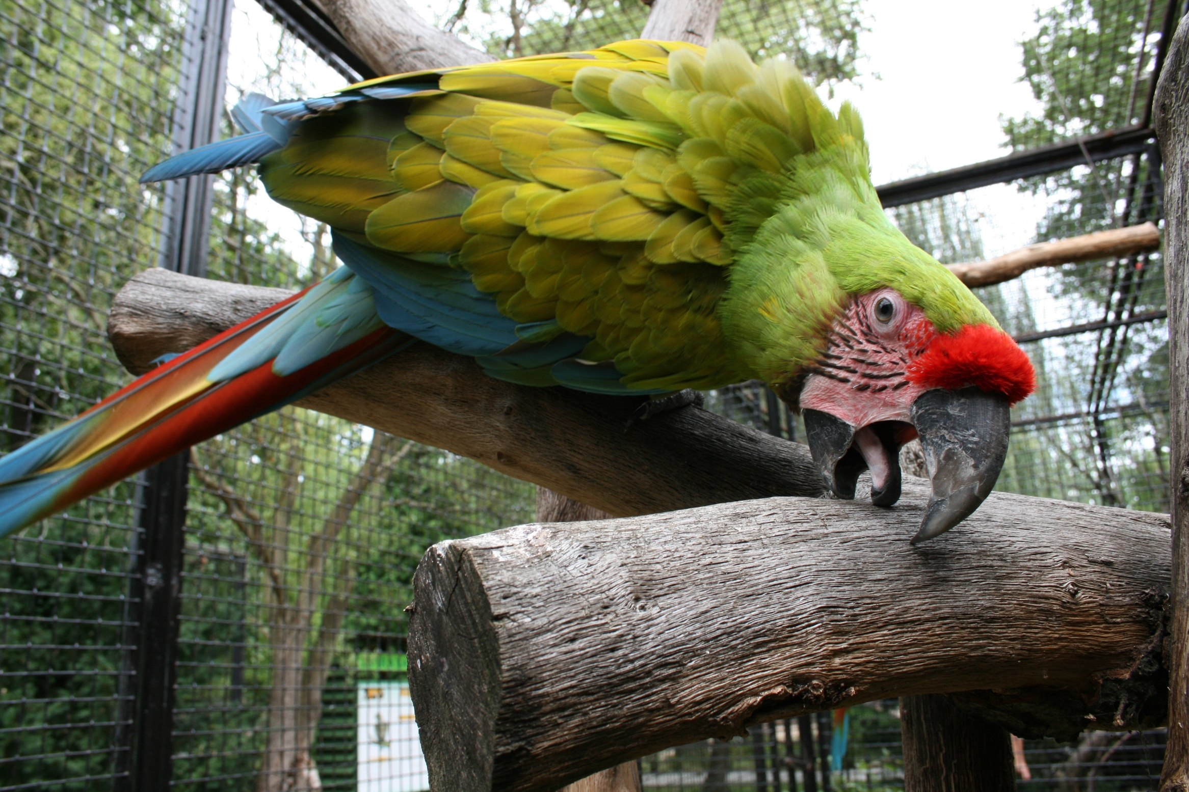 Great Green Macaw in the zoo in Hodonín, Czech Republic.